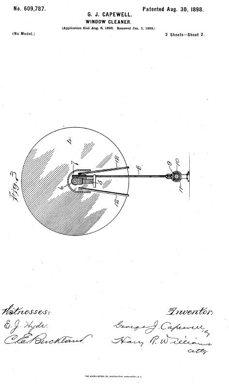 G. J. Capewell's design image for his 1898 windscreen wiper design.